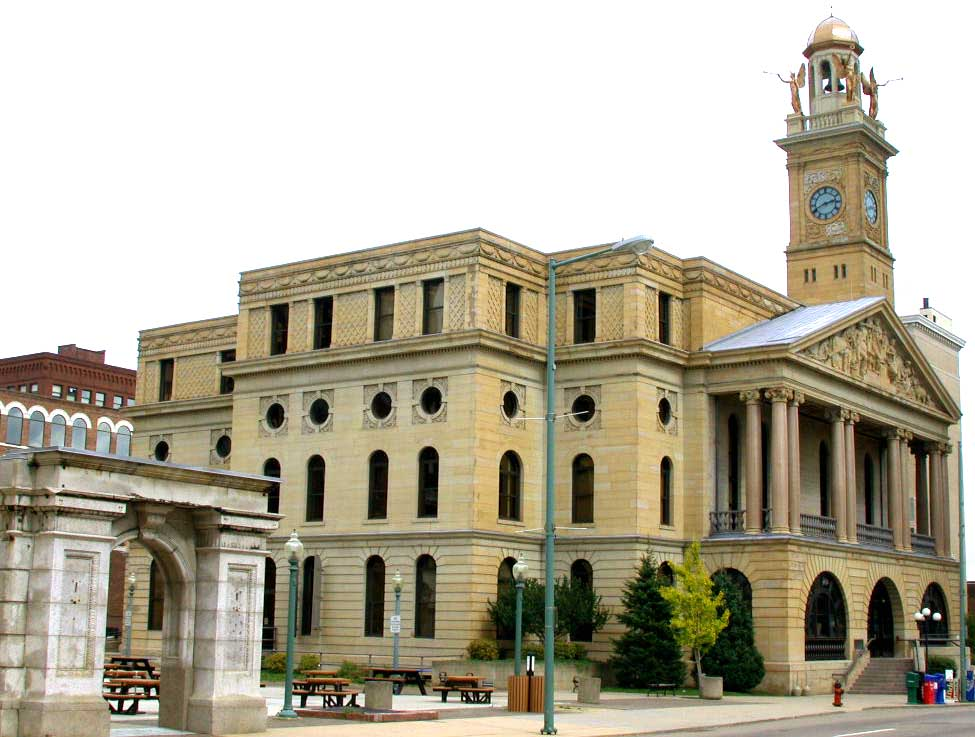 Stark County, Ohio courthouse in downtown Canton, Ohio (taken Sept. 26, 2004) © 2004 Matthew Trump